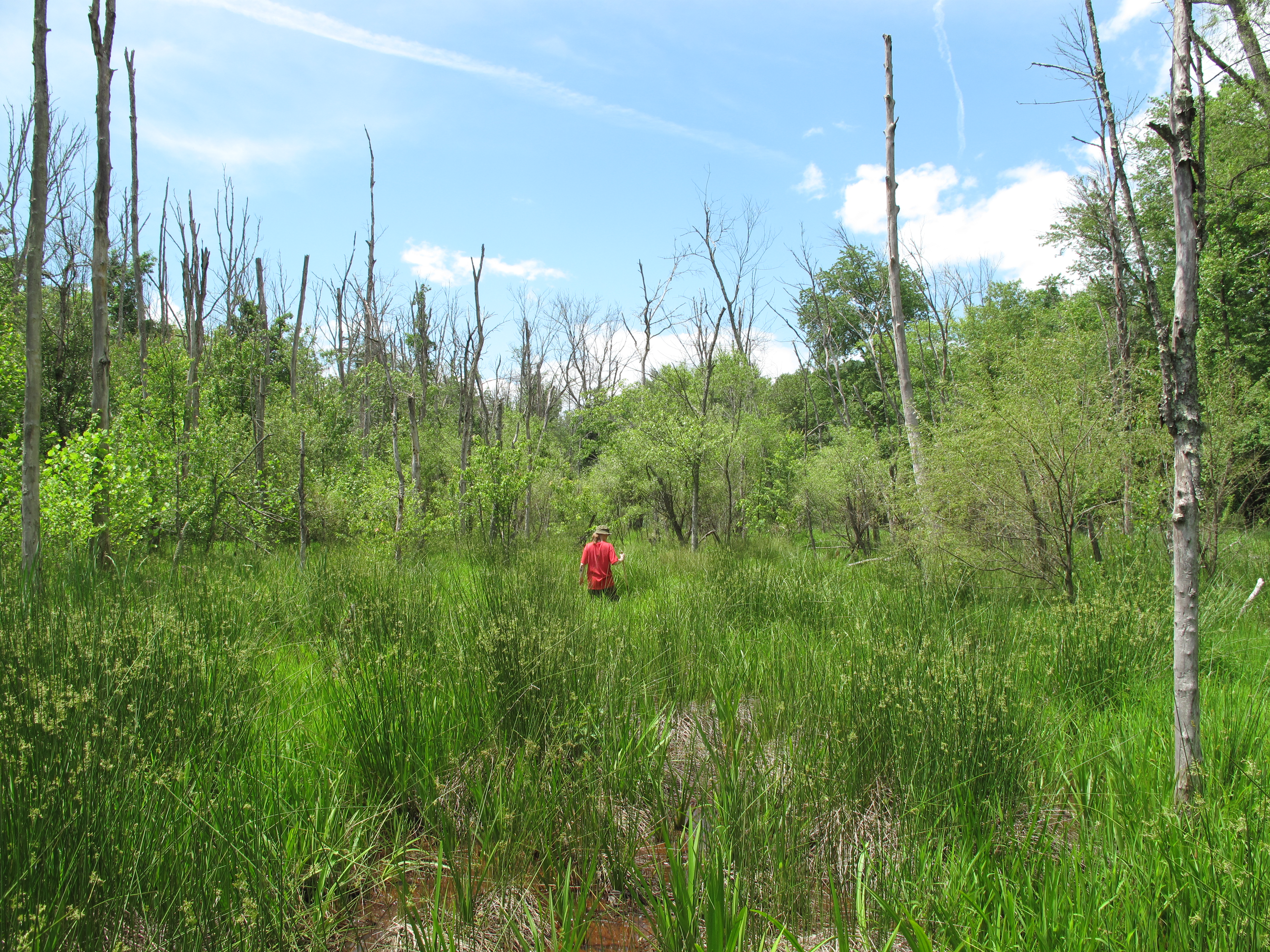 A Southern Appalachian bog in western North Carolina during a search for bog turtles conducted by the U.S. Fish and Wildlife Service and the North Carolina Wildlife Resources Commission and its volunteers.